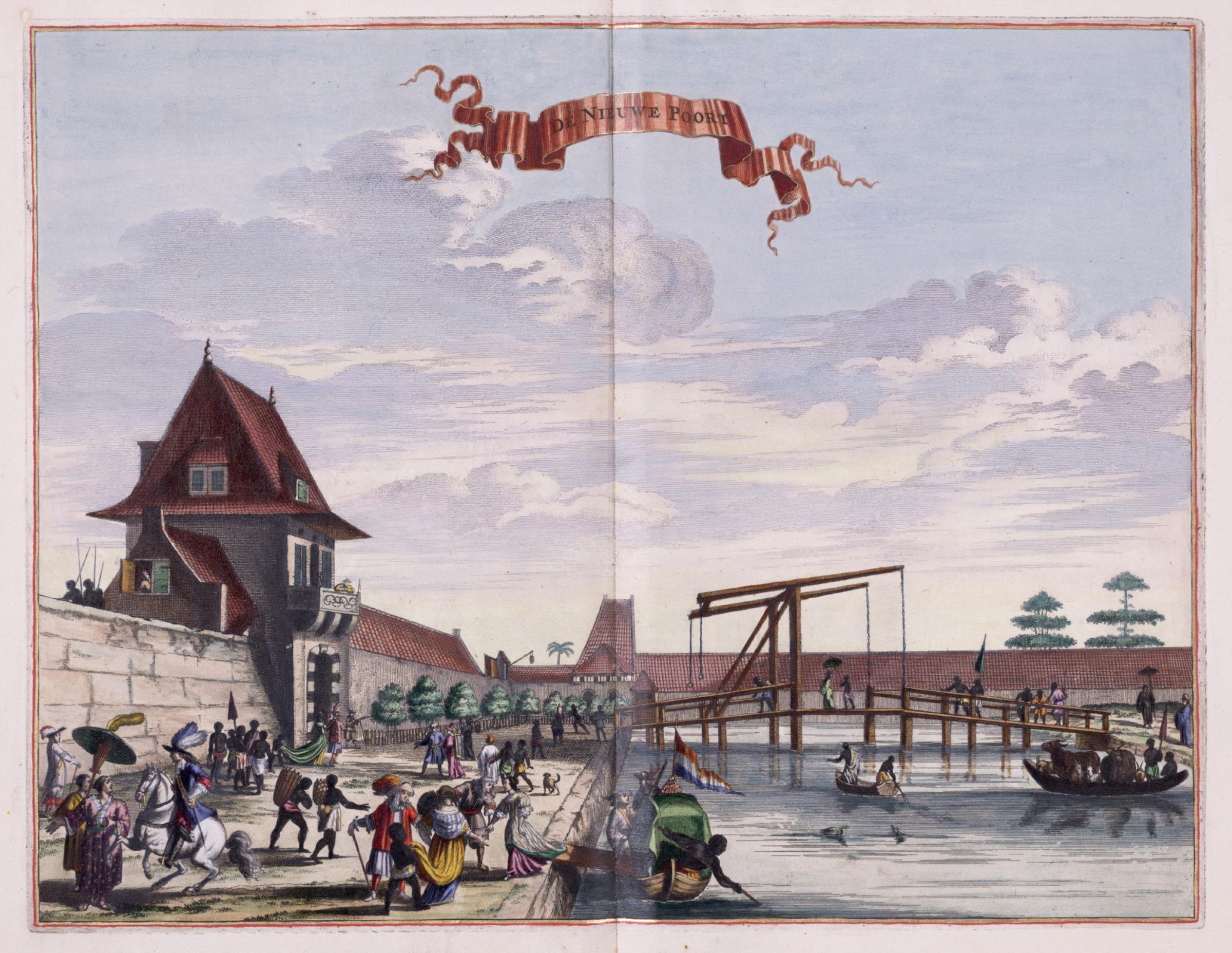 View of the Nieuwe Poort at Batavia, taken from the Atlas van der Hagen, Koninklijke Bibliotheek, The Hague part 4. Cf. Koninklijke Bibliotheek, inv. nr. 388 A 9 deel II, na p. 194 and Westfries Museum 15241.10, both in black & white.